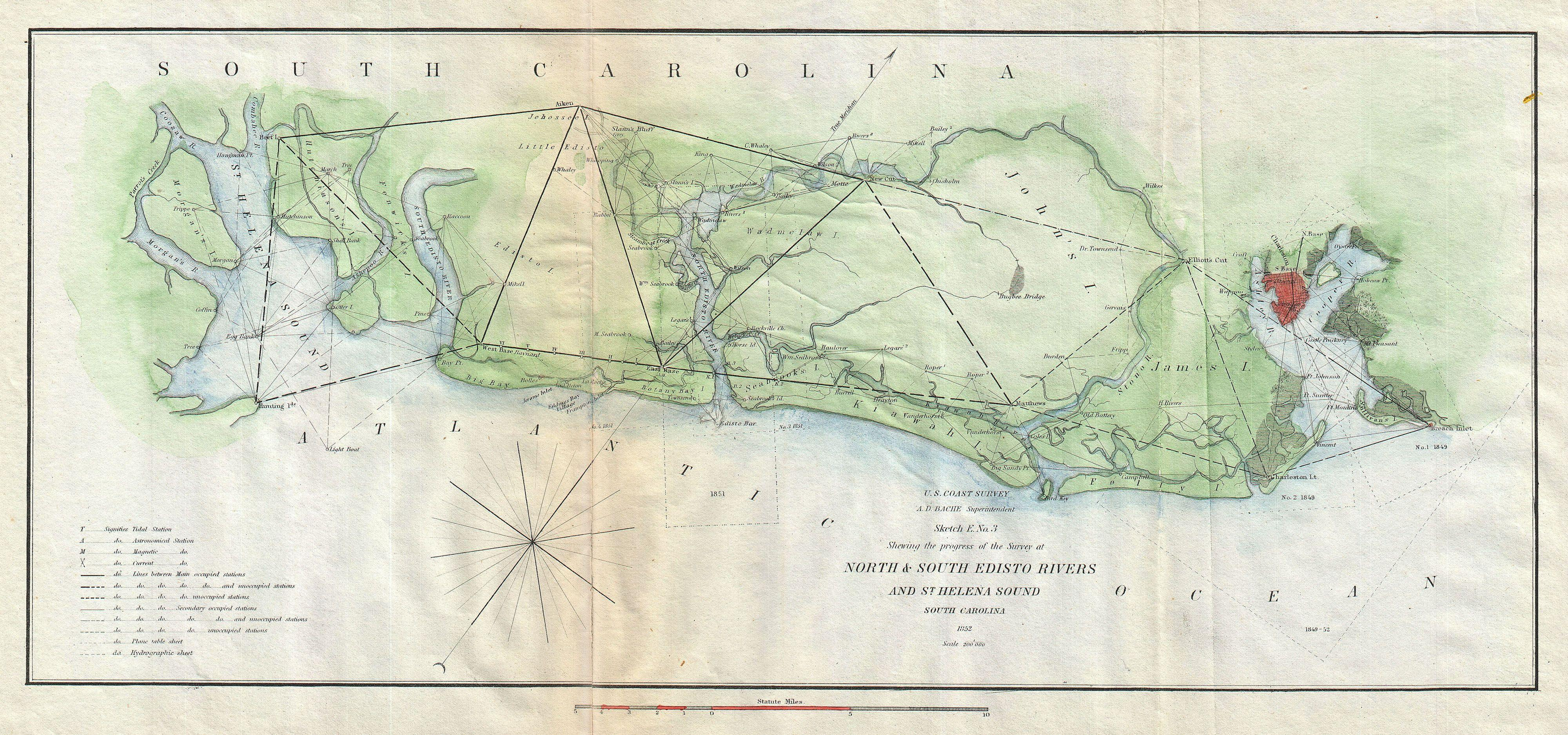 This is an attractive 1852 U.S. Coast Survey triangulation chart of the Coast of South Carolina between St. Helena’s Sound and Charleston. Focuses on the inlets and waterways on John’s Island, James Island, Wadmelaw Island and Edisto Island, specifically studying the course of the North Edisto River and South Edisto River. Shows the city of Charleston, South Carolina. Produced under the direction of A.D.